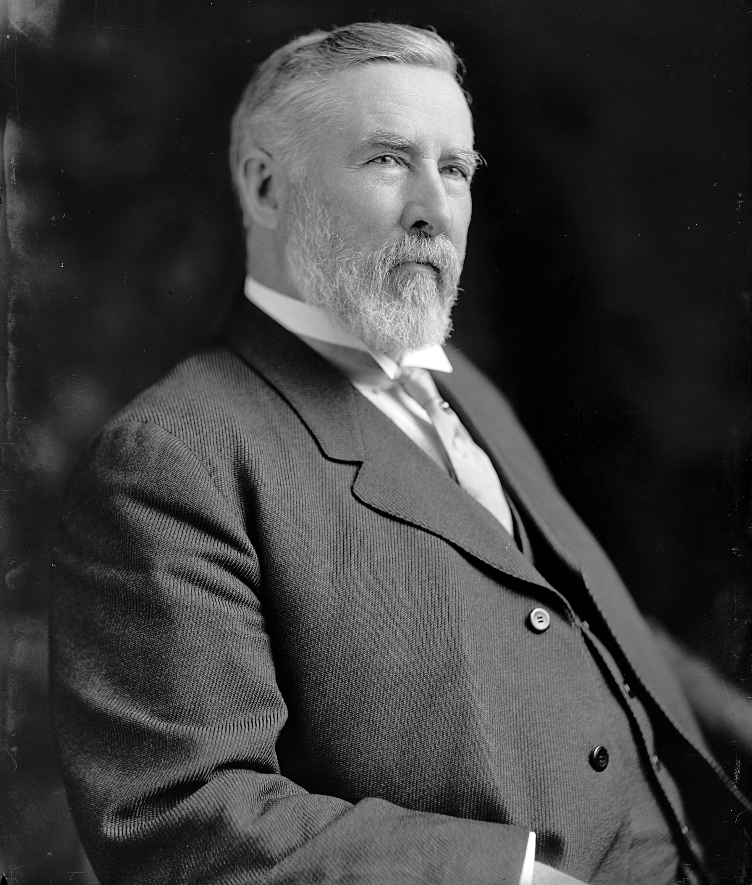 Nelson Platt Wheeler, US Representative from Pennsylvania